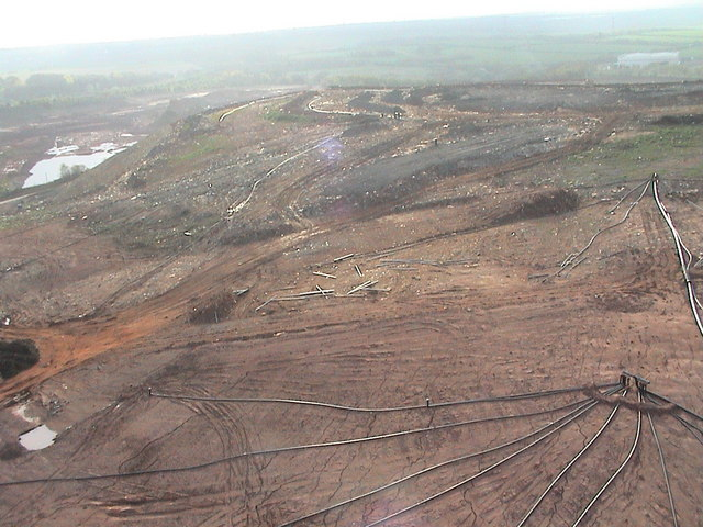 Land-fill site. Parts of this site are now full and are being sealed. Pipes for extracting the gas are being connected up.